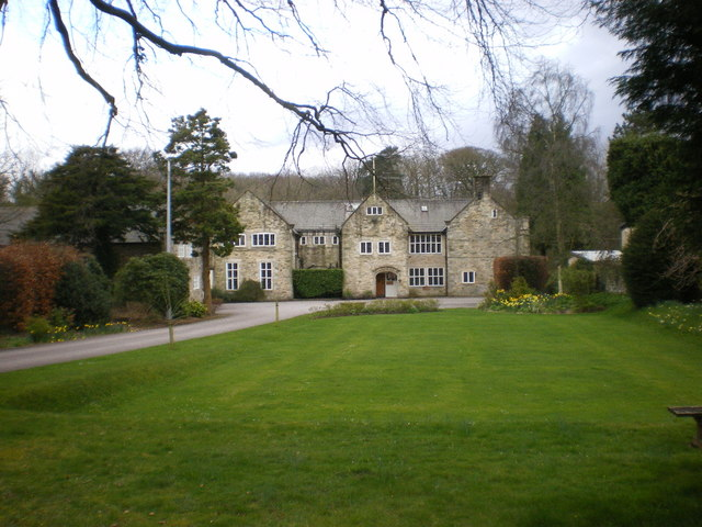 Former school Low Bentham